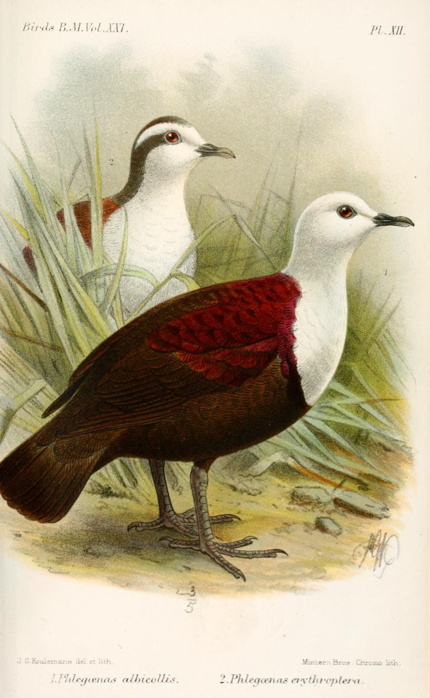 Phlegoenas albicollis = Gallicolumba erythroptera albicollis (in front); and Phlegoenas erythroptera = Gallicolumba erythroptera (behind); both forms of the Polynesian Ground-dove